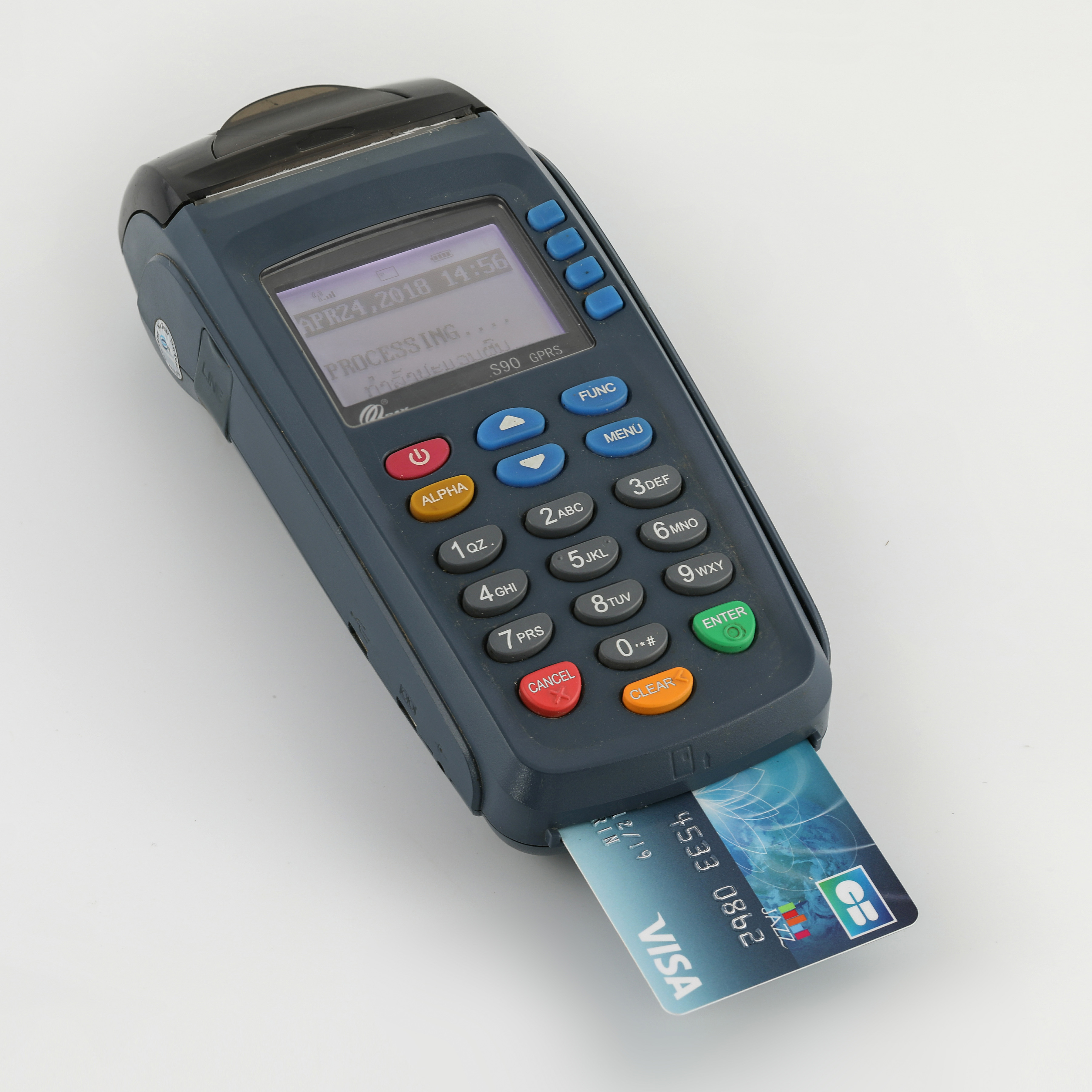 Processing credit card terminal with a visa card inserted, in Laos. Picture made by the focus stacking technique from 4 images (Helicon focus software). The number of the card has been modified on Photoshop.